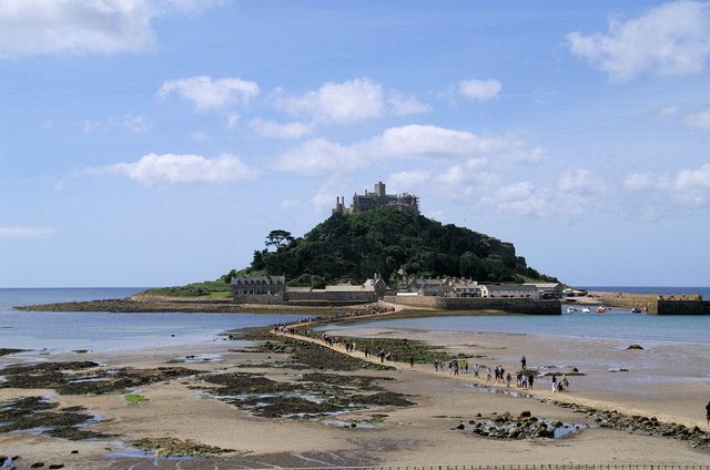 The Causeway to St Michael's Mount, near to Marazion, Cornwall, Great Britain. Lots of people heading across the stone causeway from Marazion to the Mount.